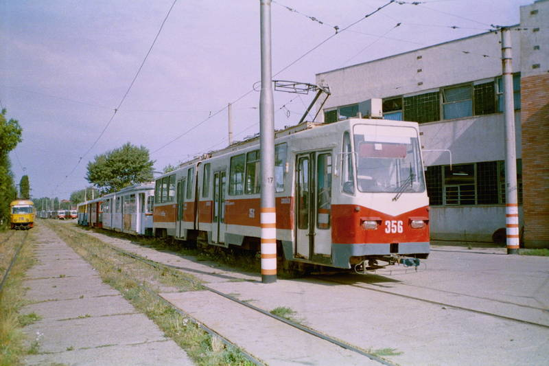 The preserved metre-gauge ITB V2A tram (converted at Nicolina Works Iași) in a tram storage facility, Iași (Romania)